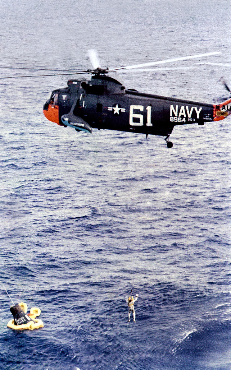 Mercury 7 rescue